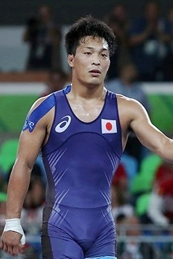 Rio 2016; Greco-Roman Wrestling 59 kg